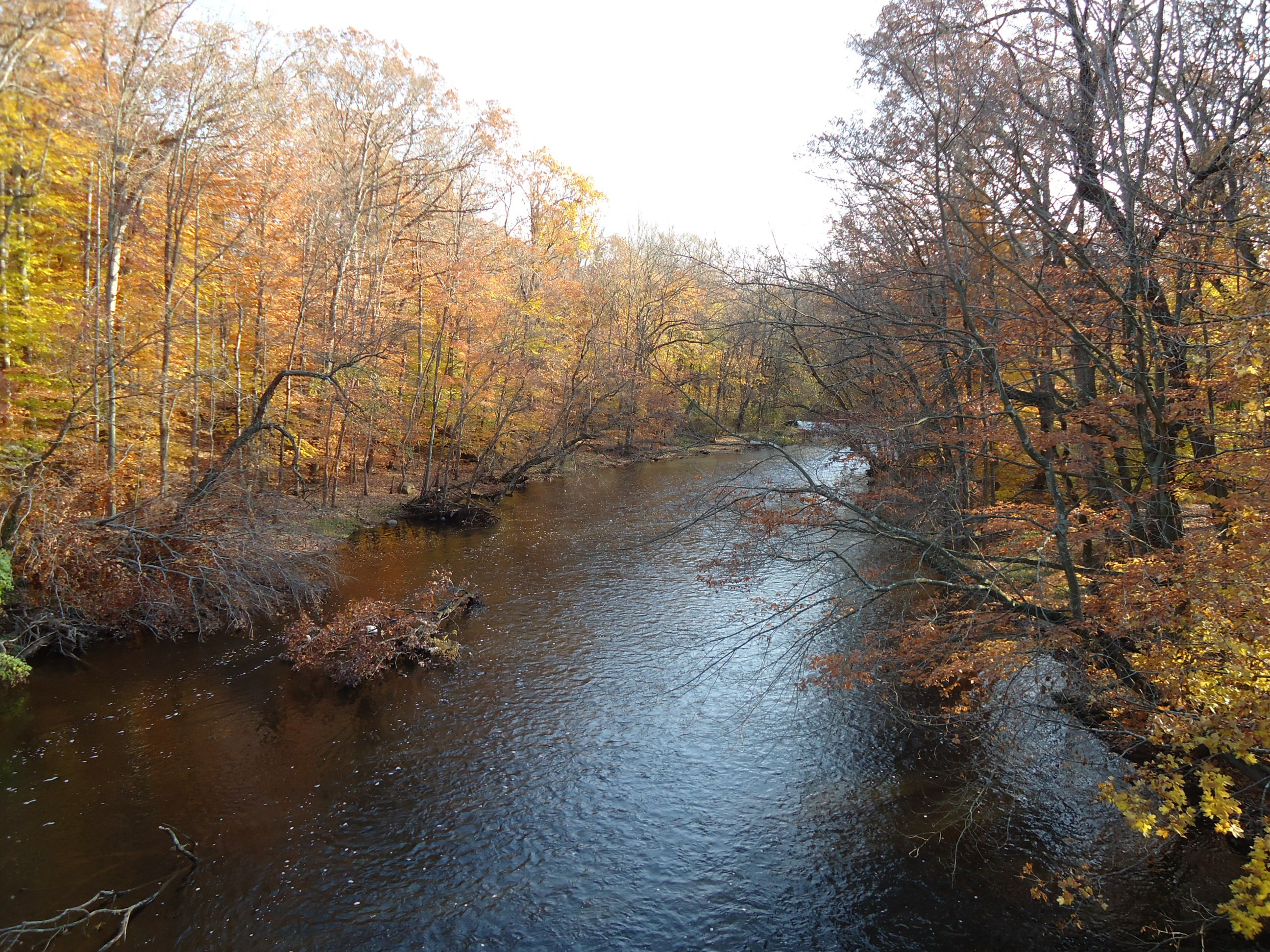 The Passaic River between Summit and Chatham, New Jersey, in autumn 2011.